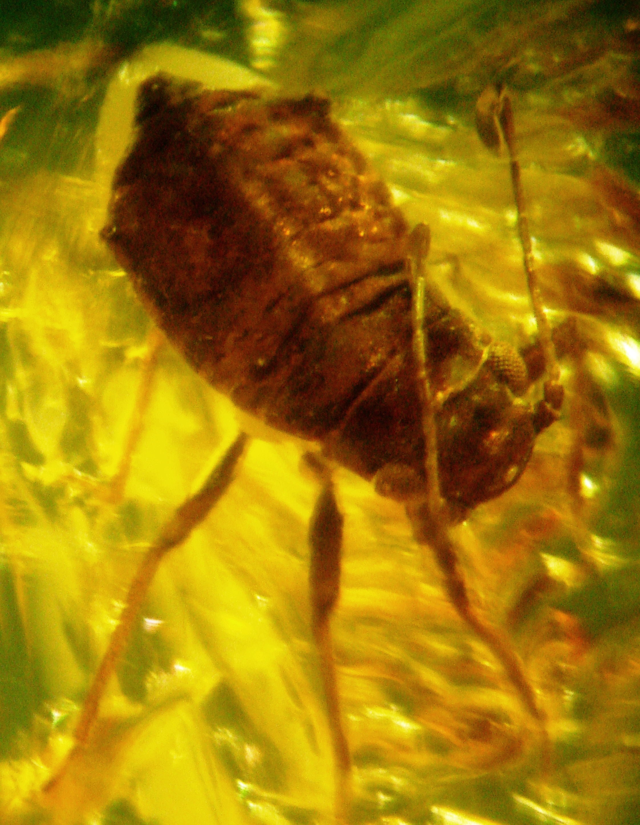 Baltic amber inclusions - 40-50 million years old - Aphid (Hemiptera, Sternorrhyncha, Aphidoidea, Aphid, ...?) - About 1,45 mm long. Is there anyone who knows this species ?